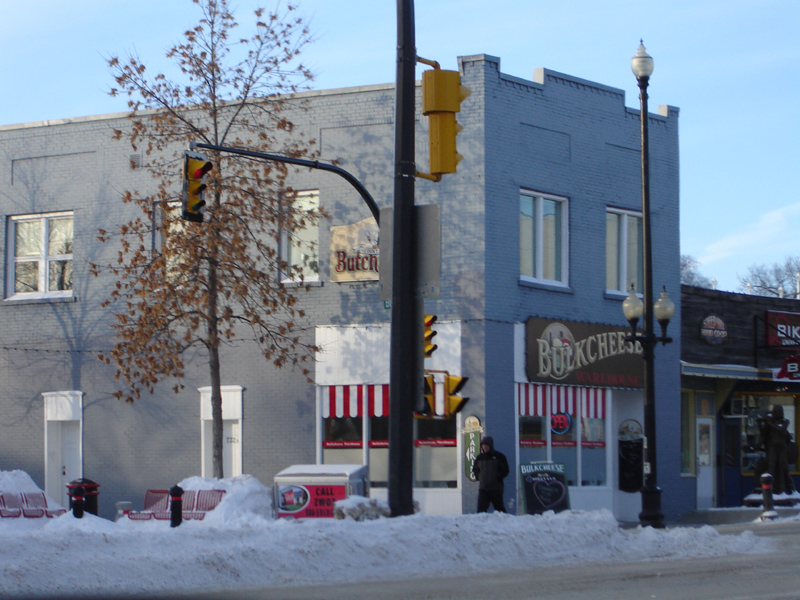 Saskatoon History Garrison House 732 BroadwayNutana, Nutana SDA, Saskatoon, Saskatchewan, Canada Currently a cheese shop, has a history of being the first jail house in Saskatoon.